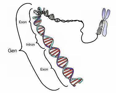 This image shows the coding region in a segment of eukaryotic DNA.